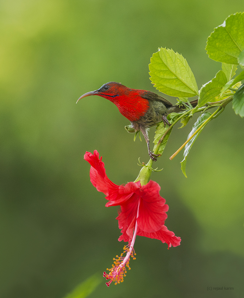 Barpeta, Assam